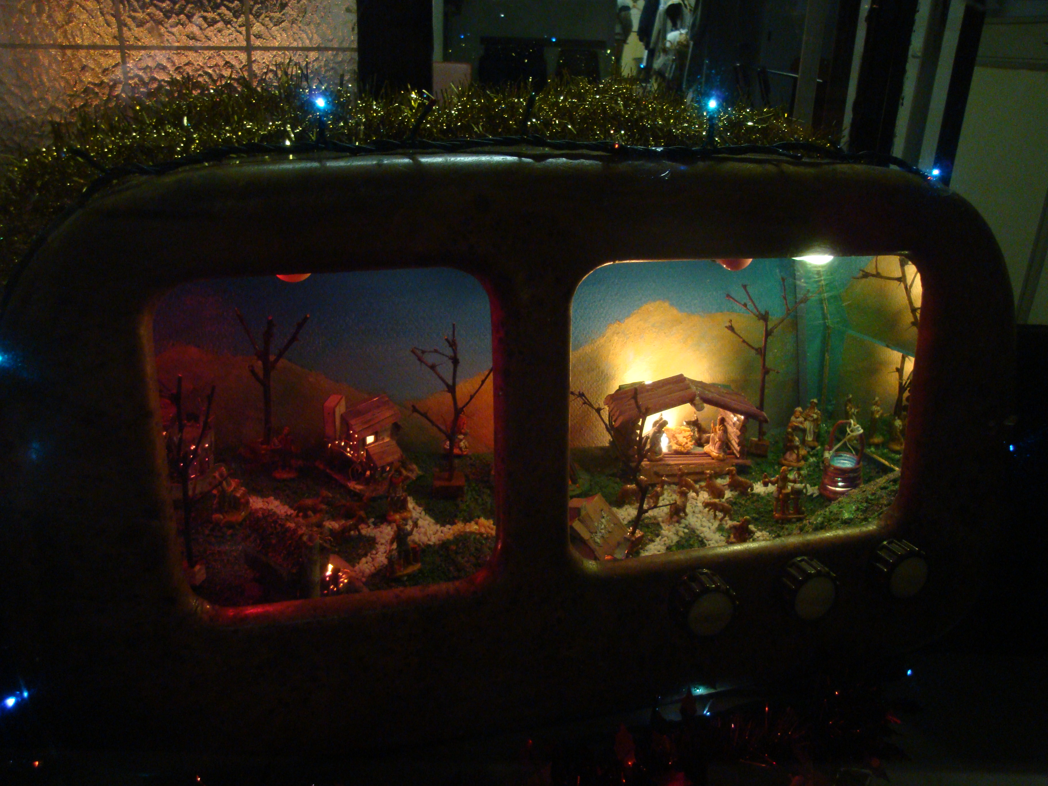 Modern crib in a radio set